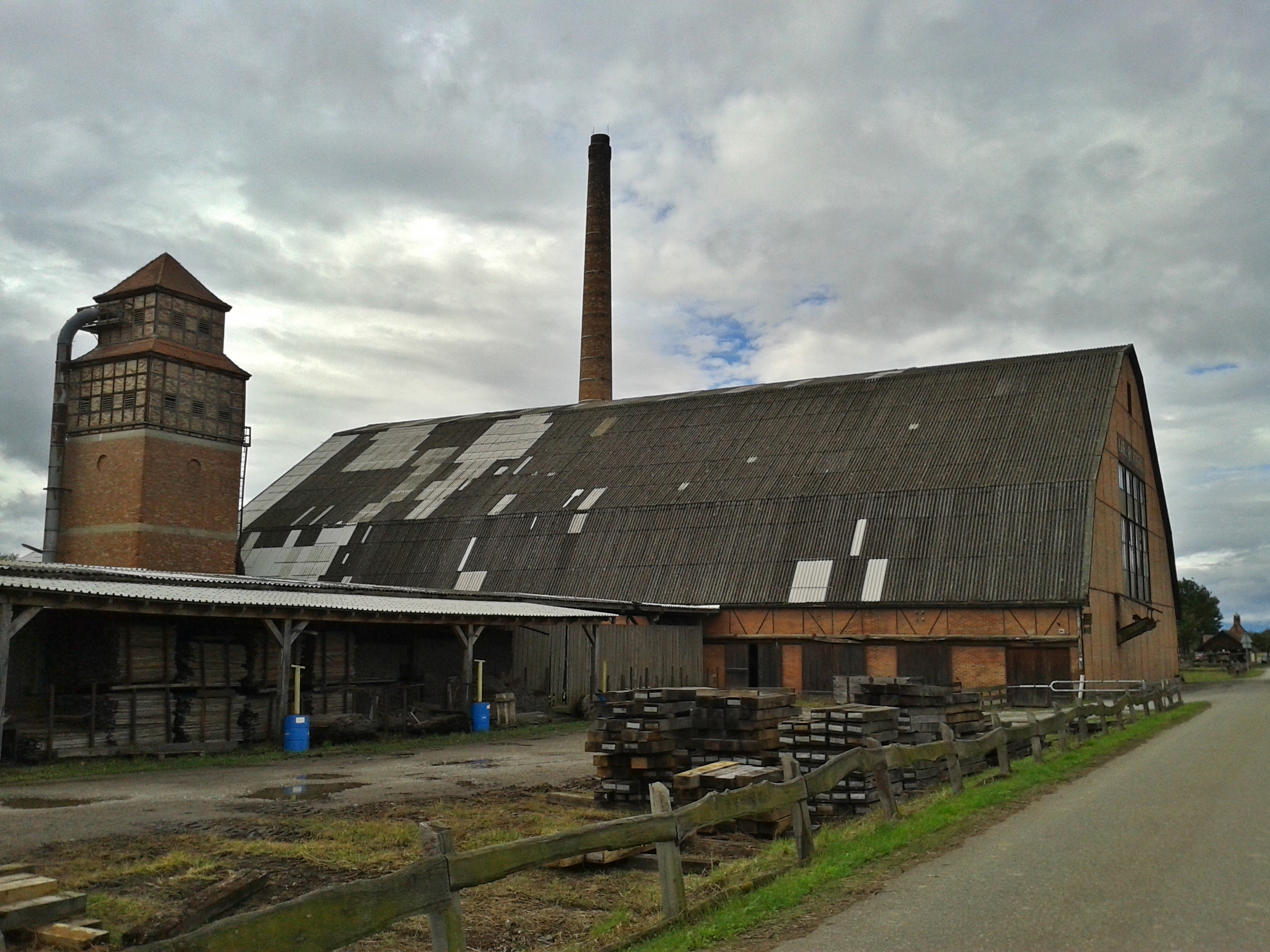 The sawmill in Auggen (Richtberg Siedlung), today technical cultural monument: it is part of a former zeppelin hangar that formerly stood in Baden-Baden Oos